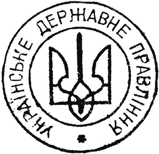 State seal of the provisional government of the Ukrainian state 1941.